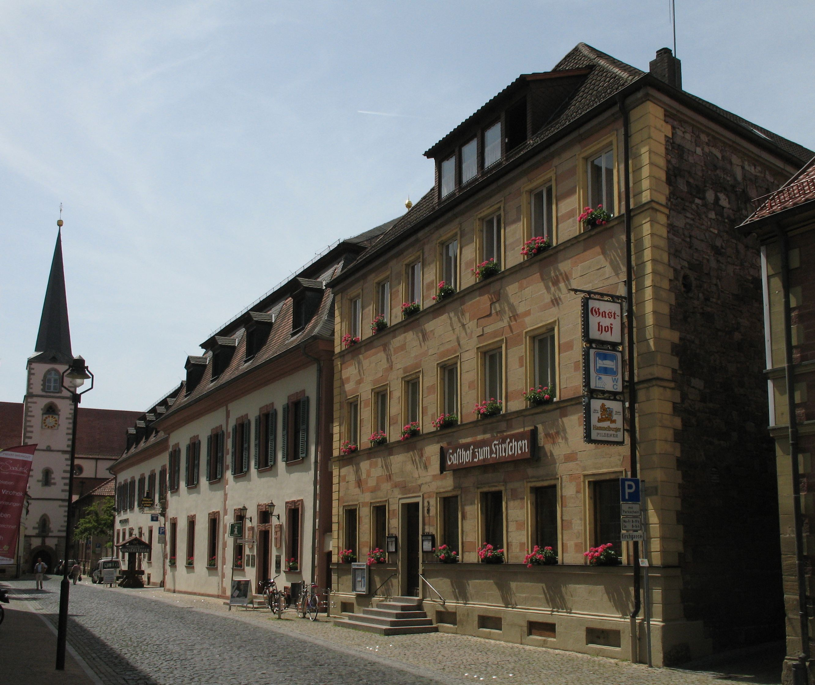 Church, "Kellereischloss", and hotel in Hammelburg in Bavaria, Germany